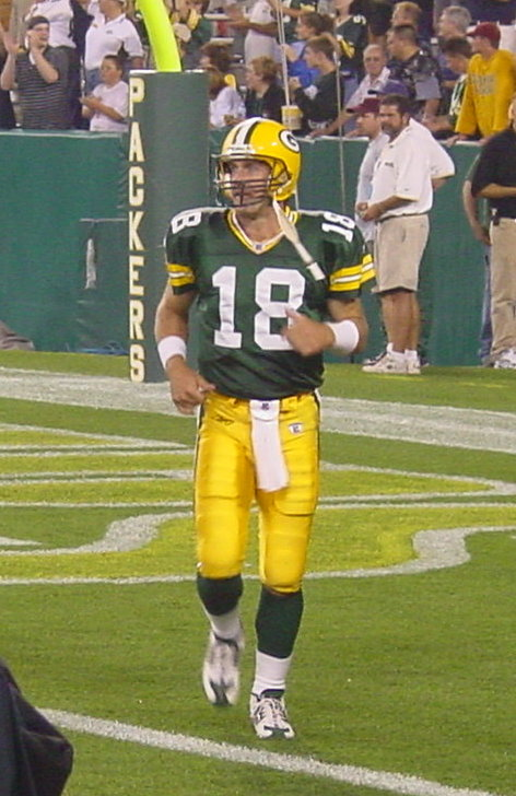 Green Bay Packers coming back out onto the field. Lambeau Field]. #18 is quarterback Doug Pederson.